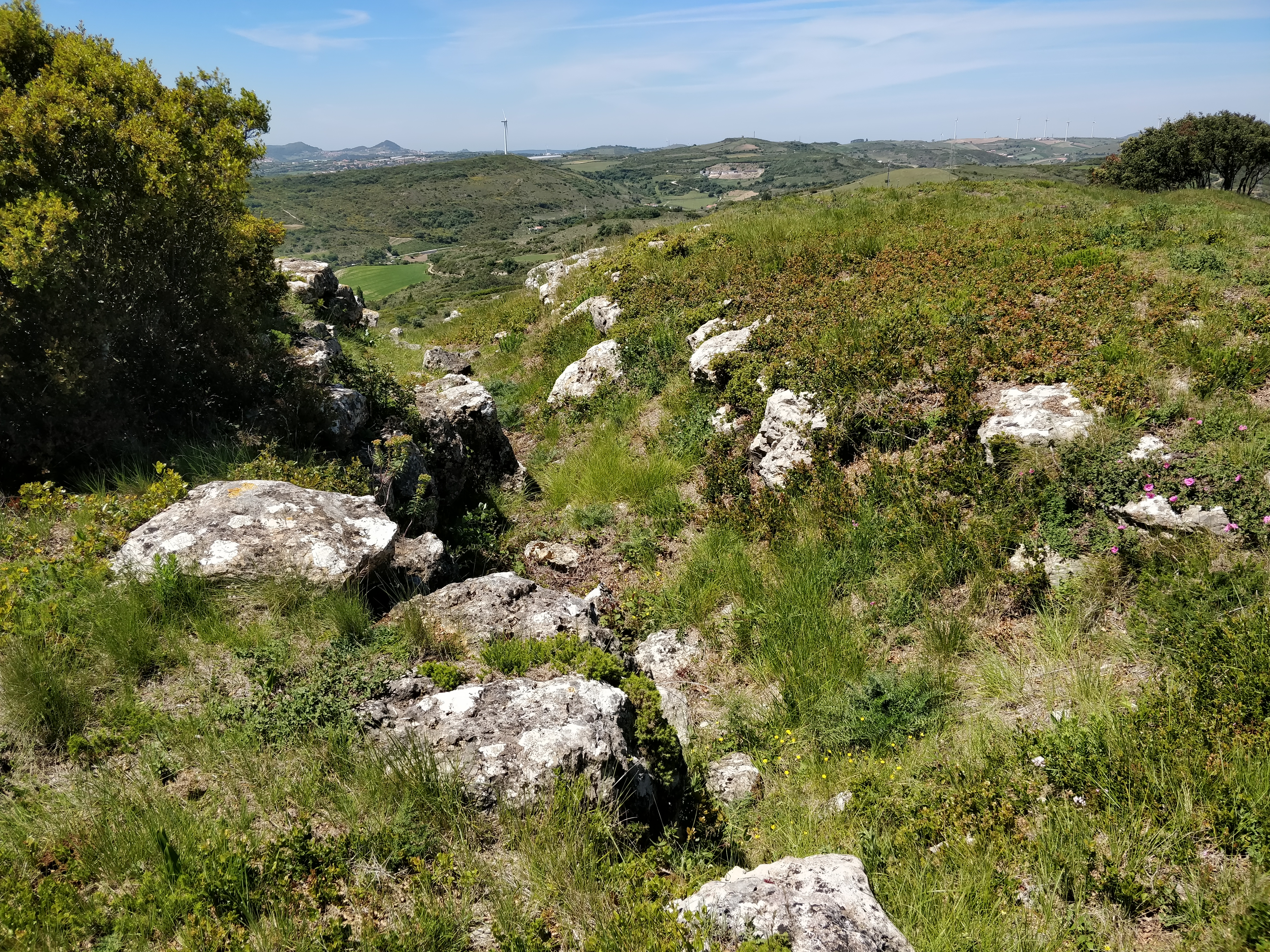 Remains of the Fort of Ajuda Pequeno, one of the forts in the Lines of Torres Vedras near Bucelas, just north of Lisbon, Portugal